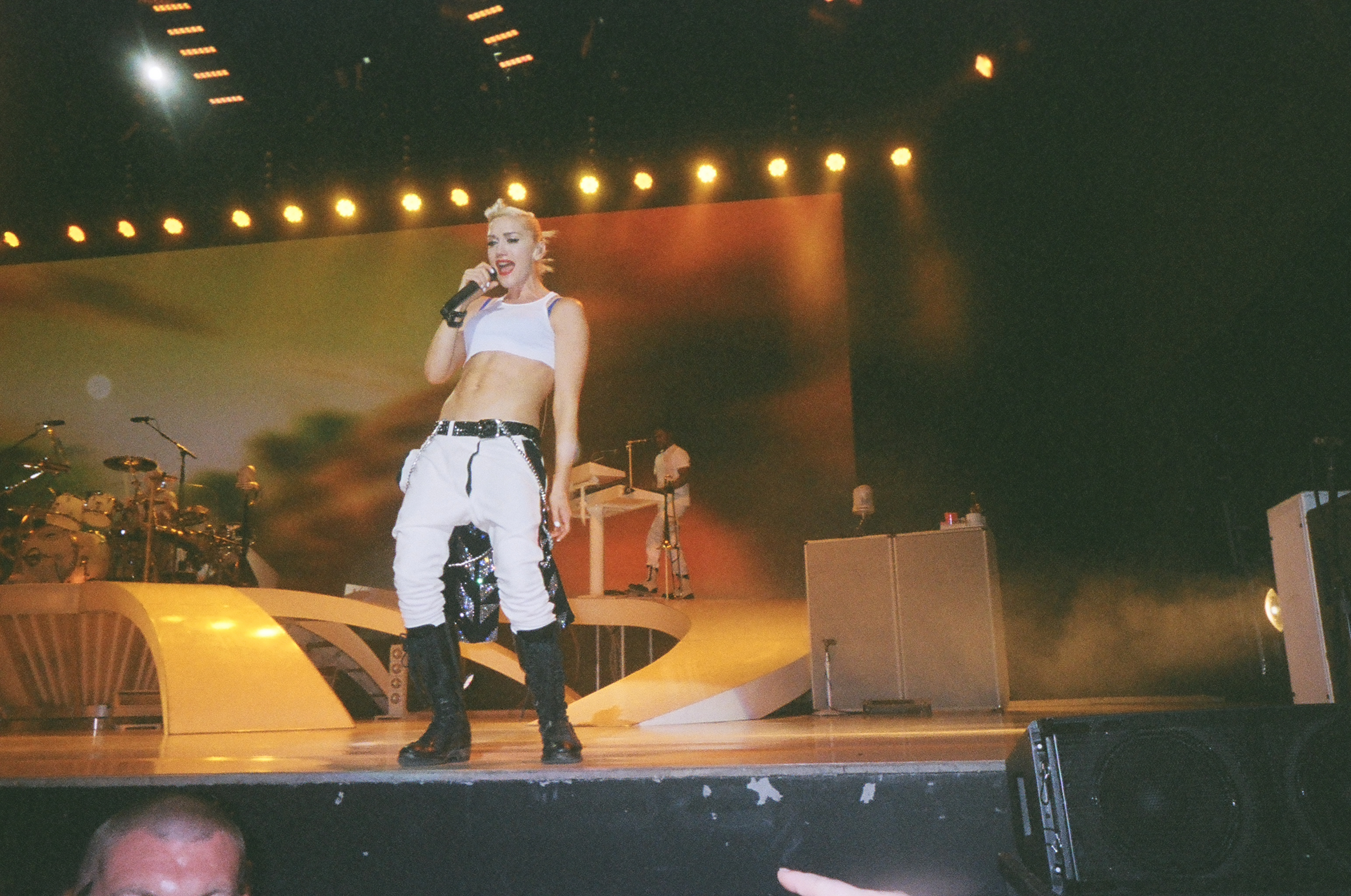 Gwen Stefani during No Doubt's 2009 summer reunion tour in Auburn, WA at the White River Amphitheatre.